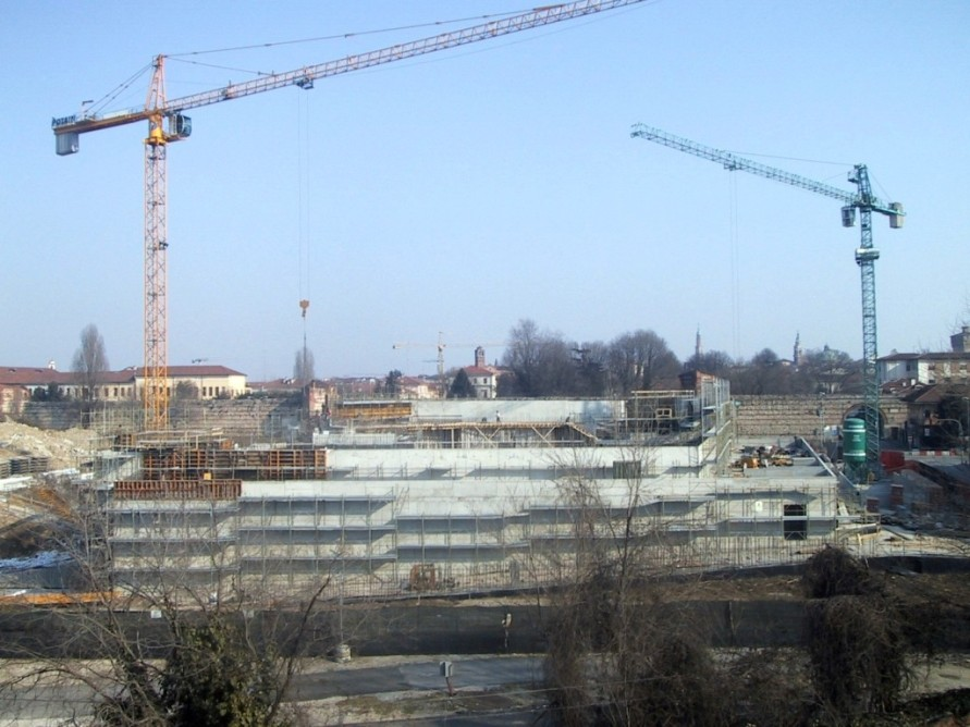 Un'immagine del Teatro Comunale in fase di costruzione